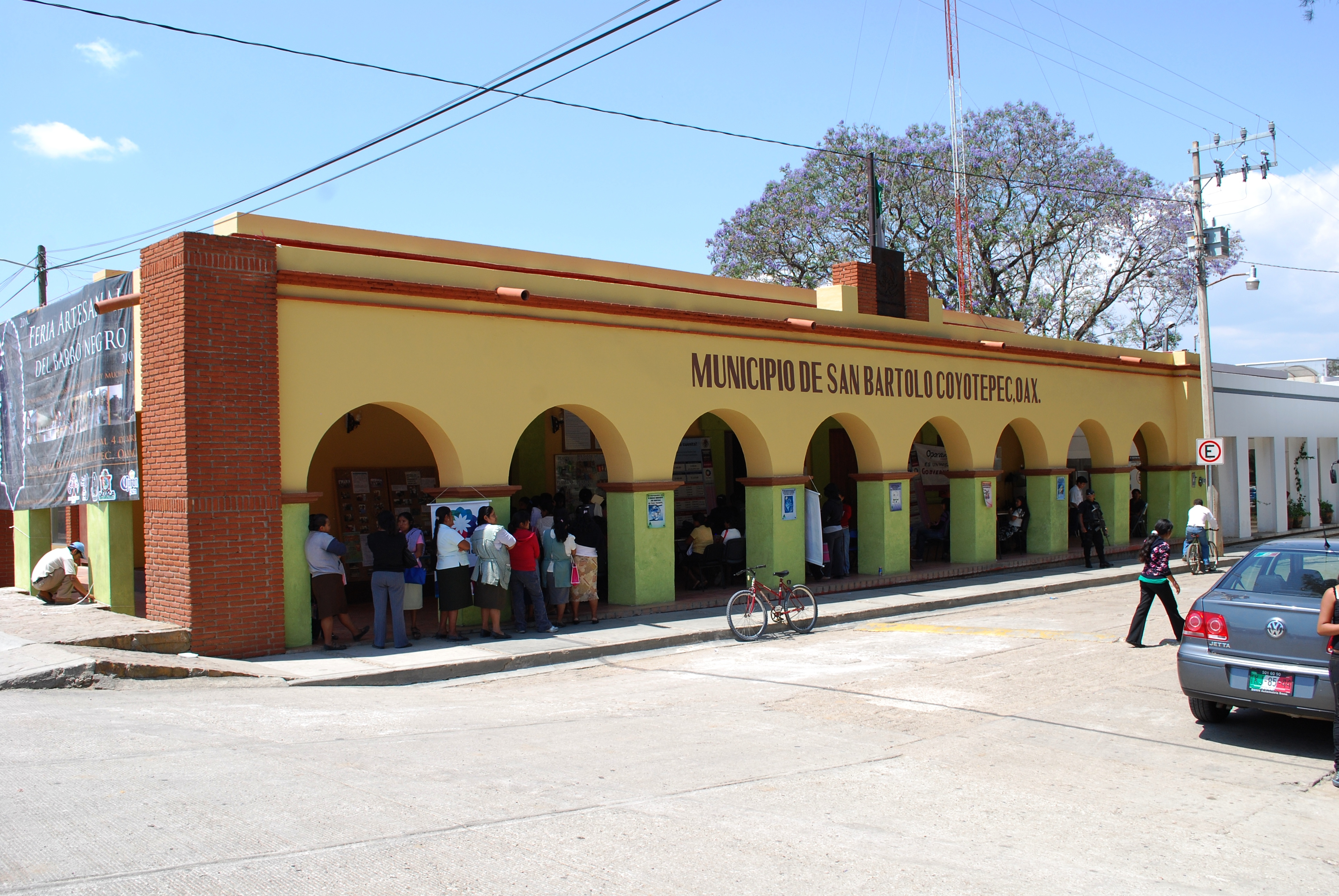 Municipal palace of San Bartolo Coyotepec, Oaxaca, Mexico